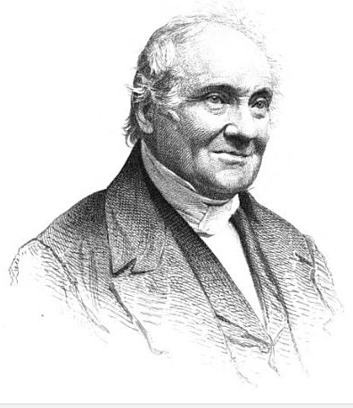 Portrait of Joseph T. Buckingham